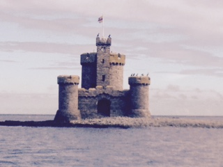 Tower of Refuge, St Mary's Isle, Isle of Man.